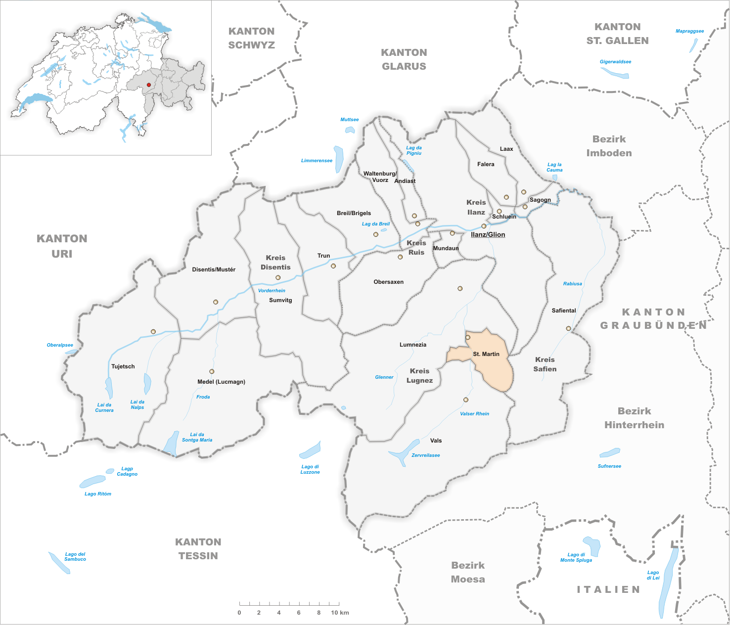 Municipality St. Martin